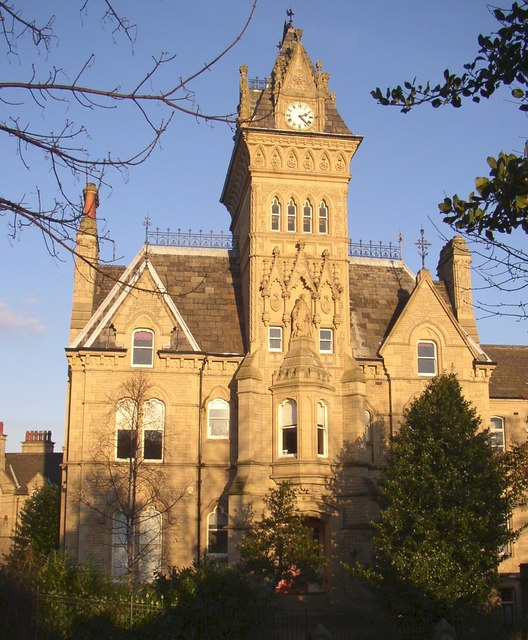 The former Dewsbury Infirmary, Halifax Road, Dewsbury Built c.1881 (dated on a chimney stack) in Gothic Revival style. The architects were Kirk & Sons. The clock tower has a richly-carved corbel table (the band under the eaves) and a statue that is shown in the next image. It later became the Municipal Building (council offices) and I believe it is now flats.